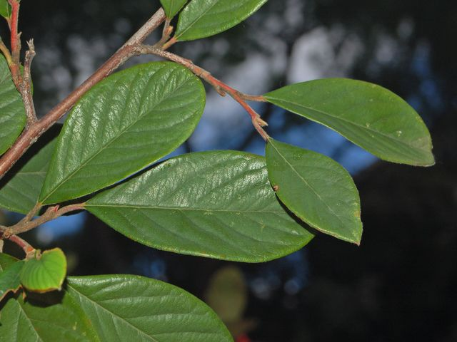 Leaves of Cotoneaster x watereri. Genova, Italy